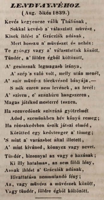 Poem of Garay János